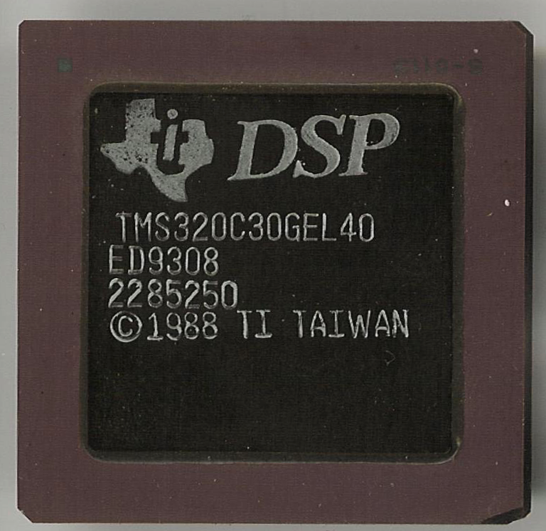 IC photo